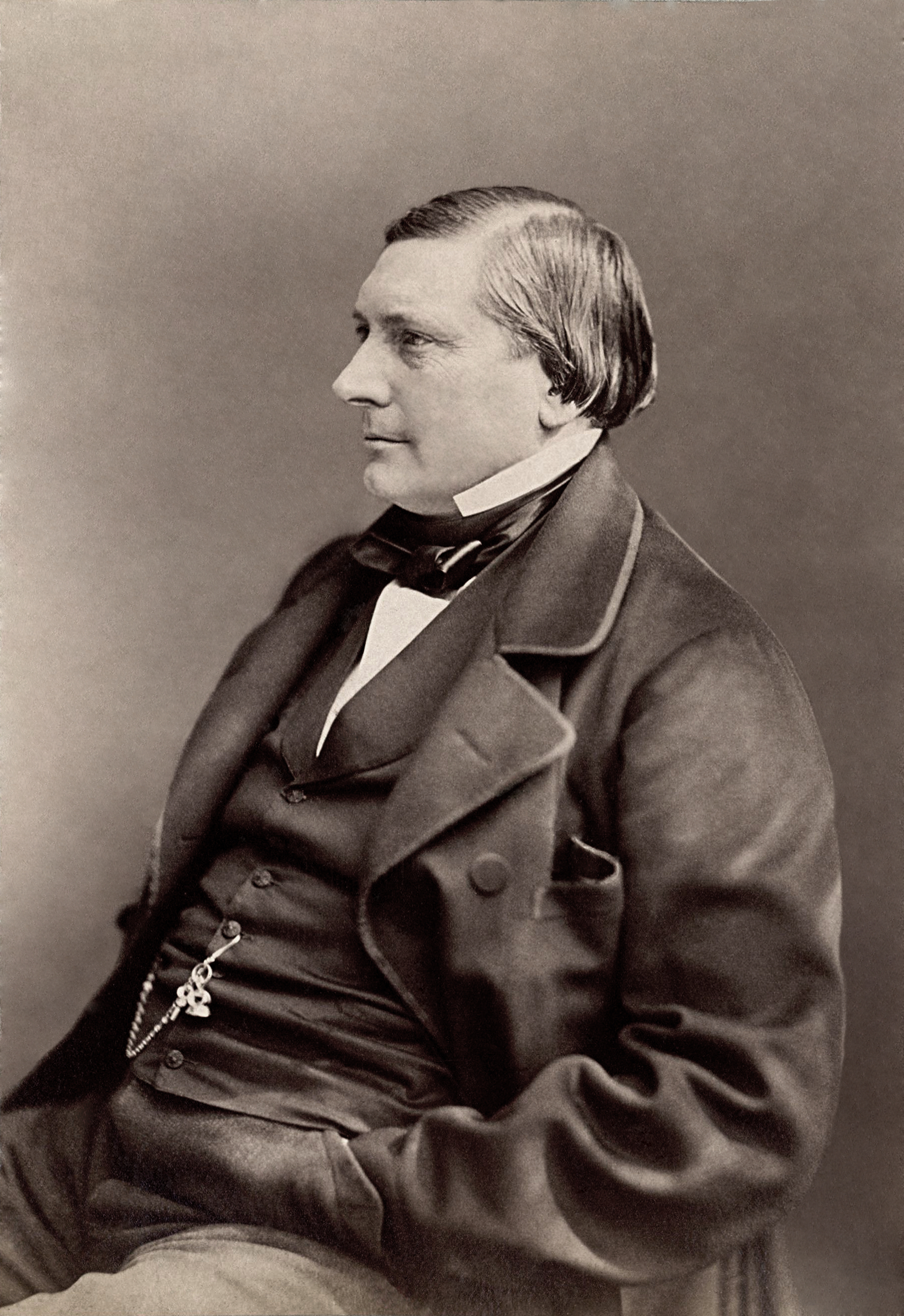 Photography of Eugène Labiche by Félix Nadar